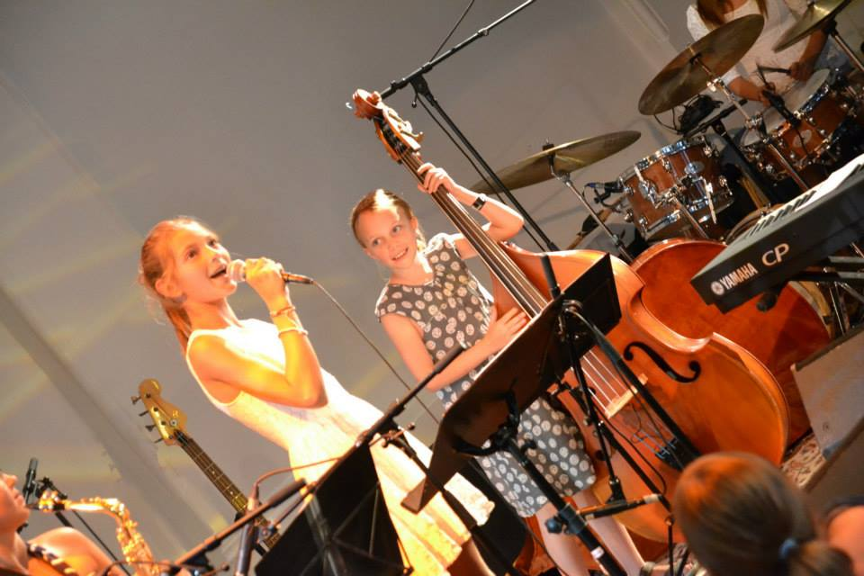 Kids performing at the annual Kids in Jazz festival in August 2014